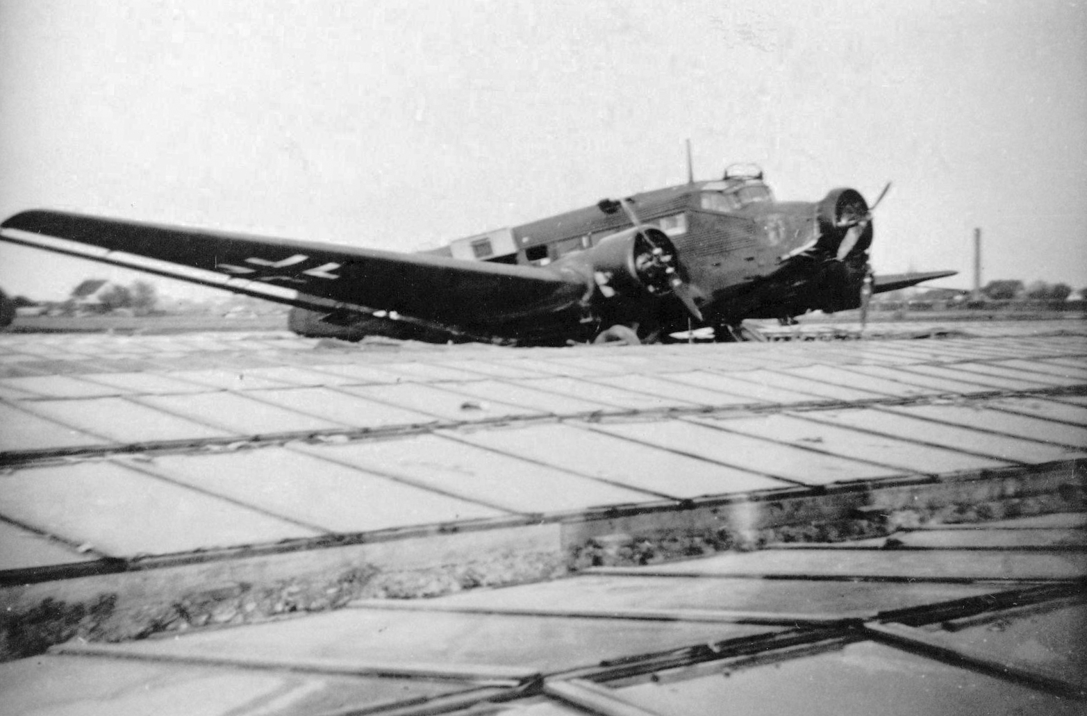 Noodlanding Duits vliegtuig in Sion mei 1940